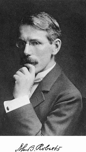 Photograph of Dr. John Bingham Roberts as a young man